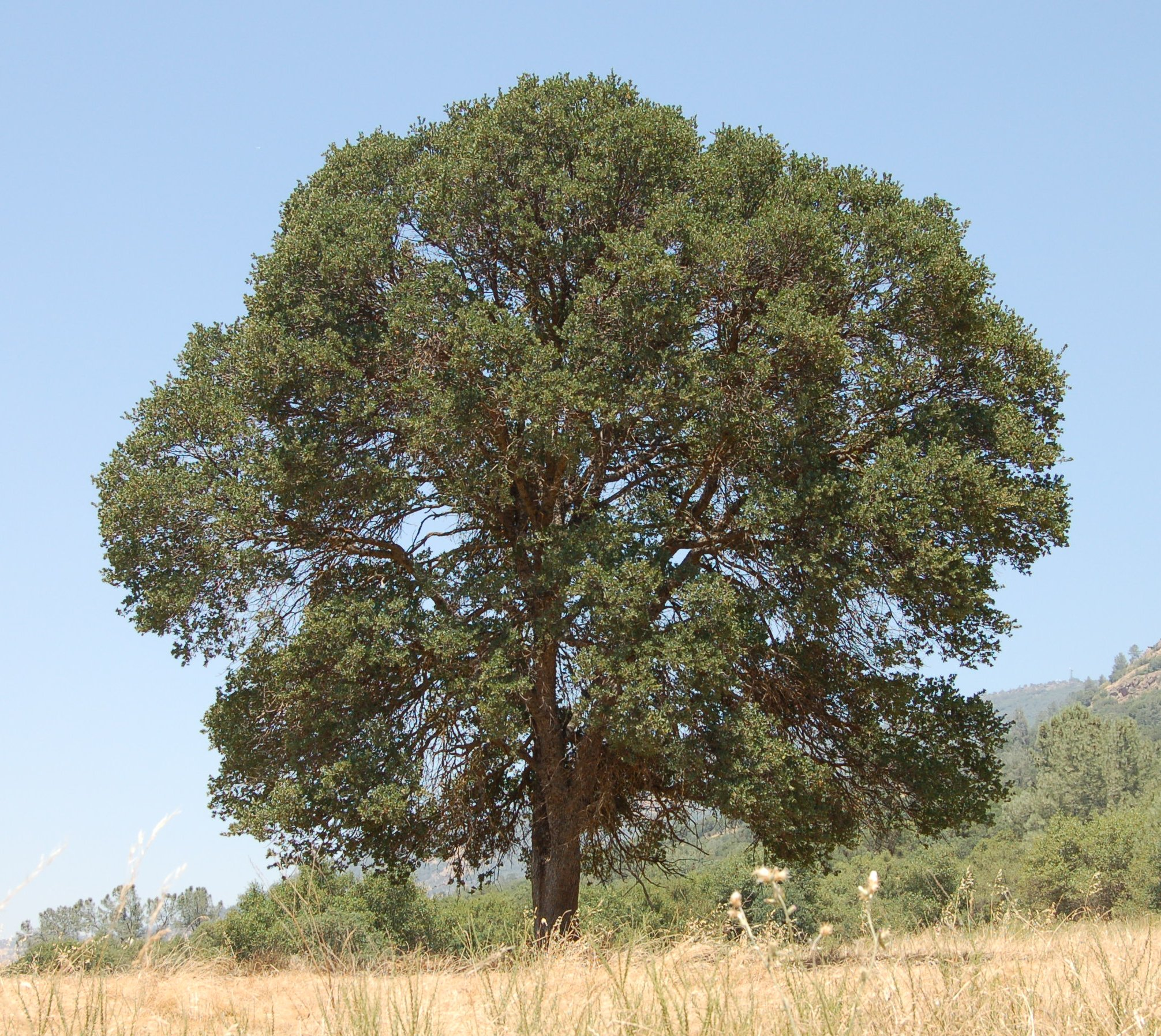 This is a large Blue Oak in a pasture in Mariposa County, California.